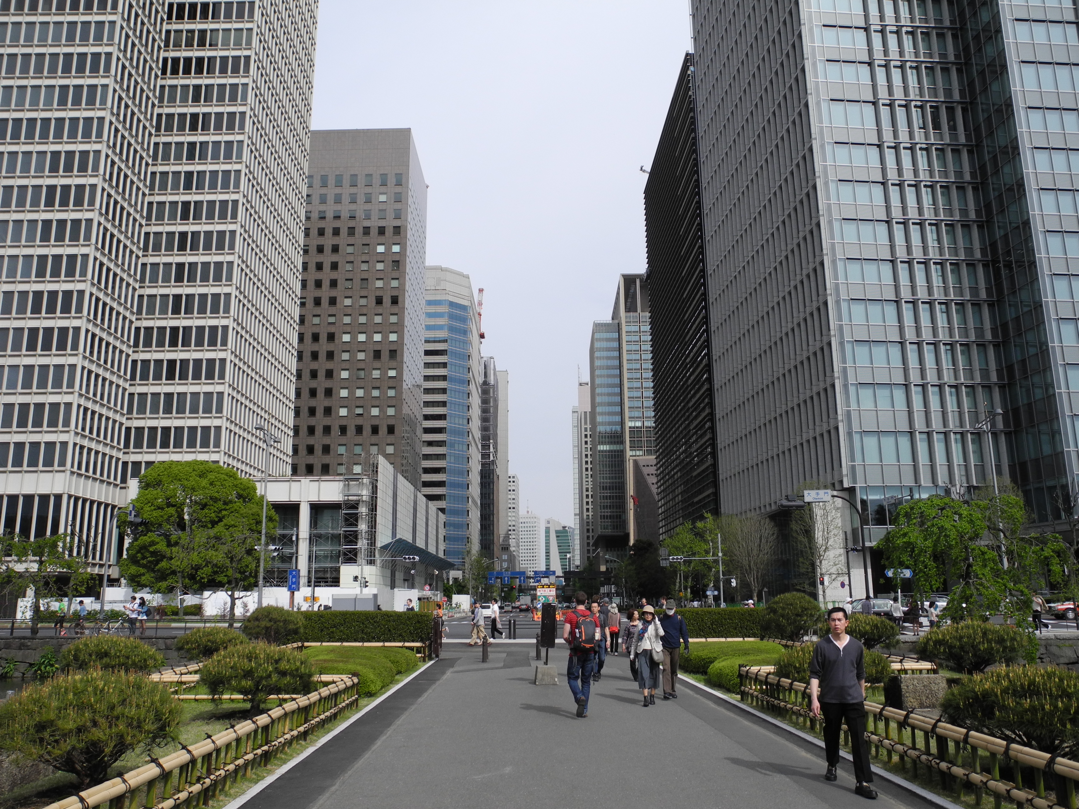 Skyscrapers in Chiyoda. Between the Imperial Palace and Tokyo Station, approximately. Tokyo, Japan.